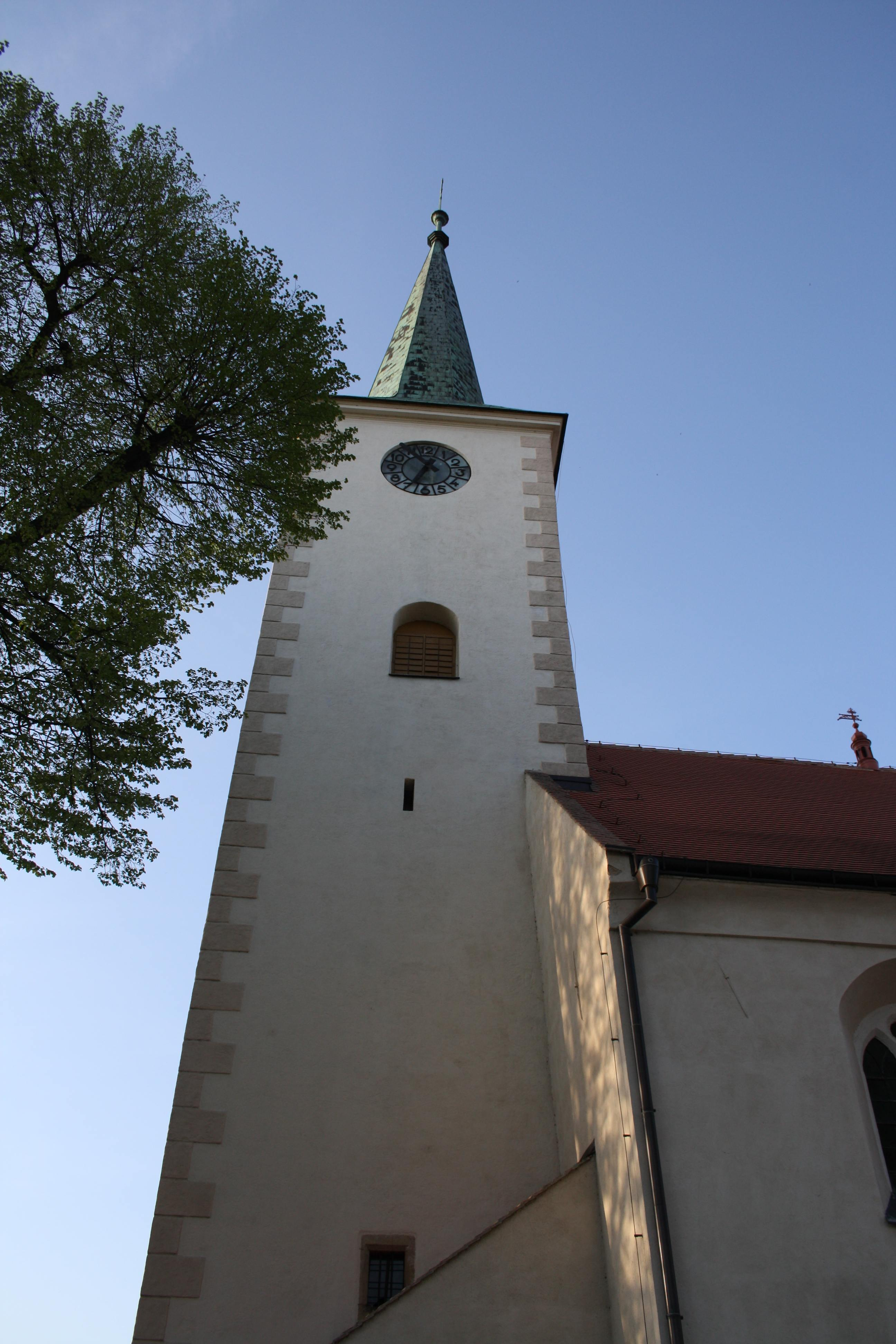 Tower of Saint Catherine of Siena Church (name of this file is wrong) in Třešť, Czech Republic.